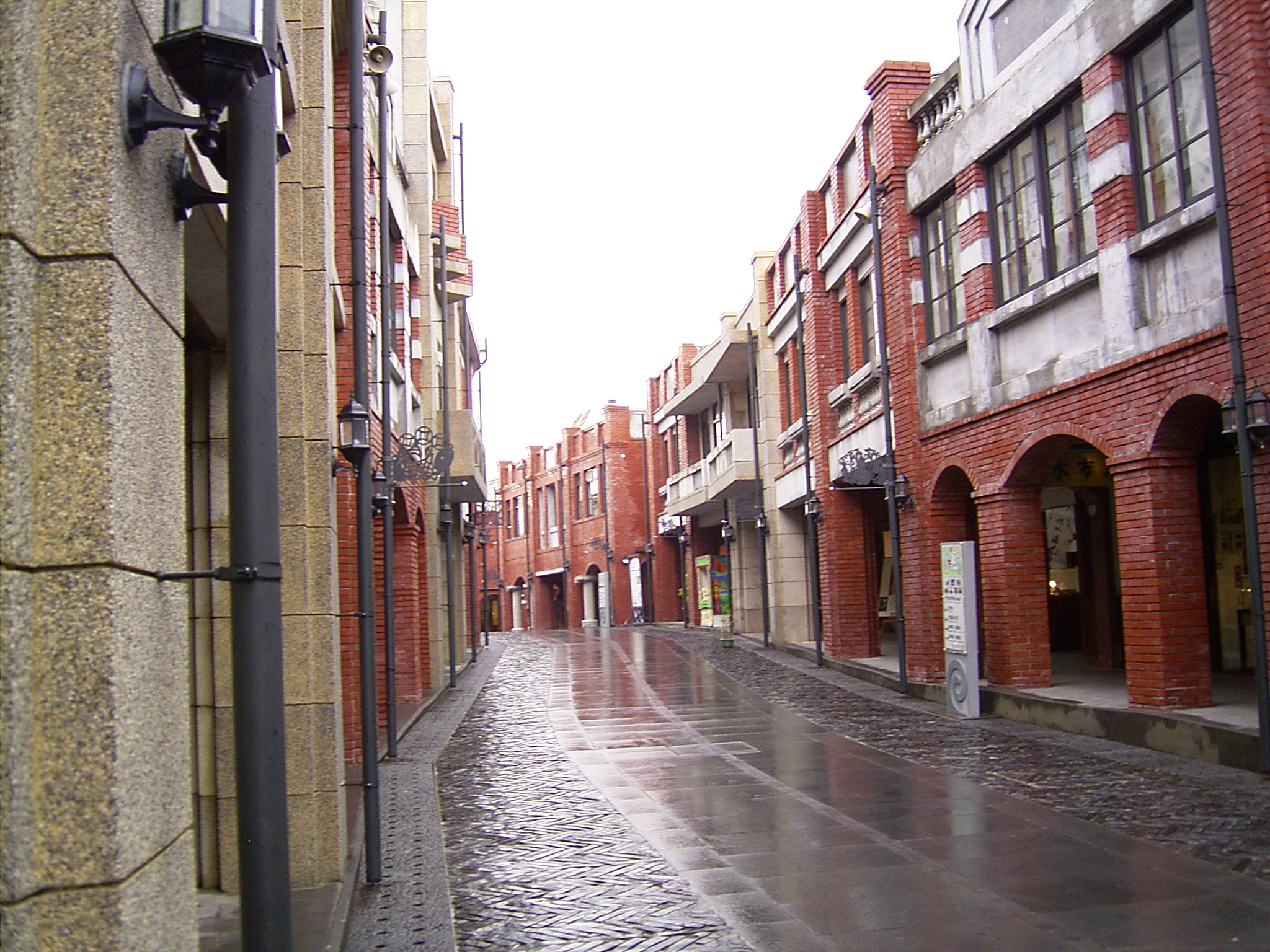 Folk Art Boulevard in National Center for Traditional Arts